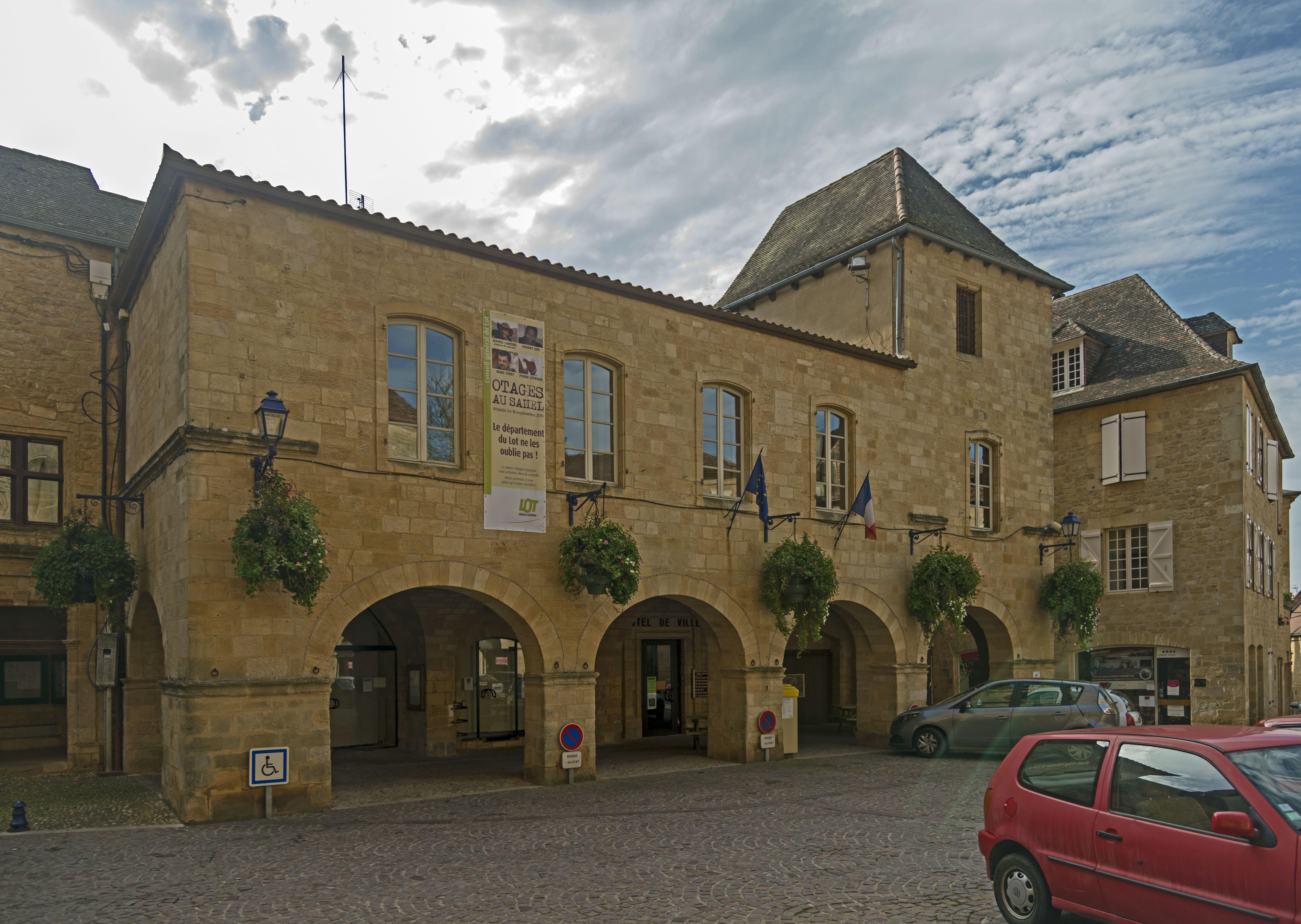 Gourdon, Lot - Town Hall facade